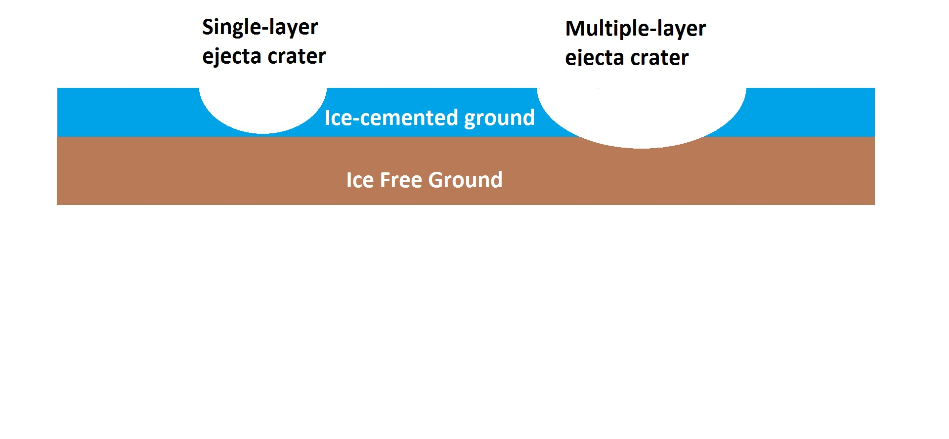 Drawing showing how far down single-layer and multiple layer ejecta craters on Mars penetrate.